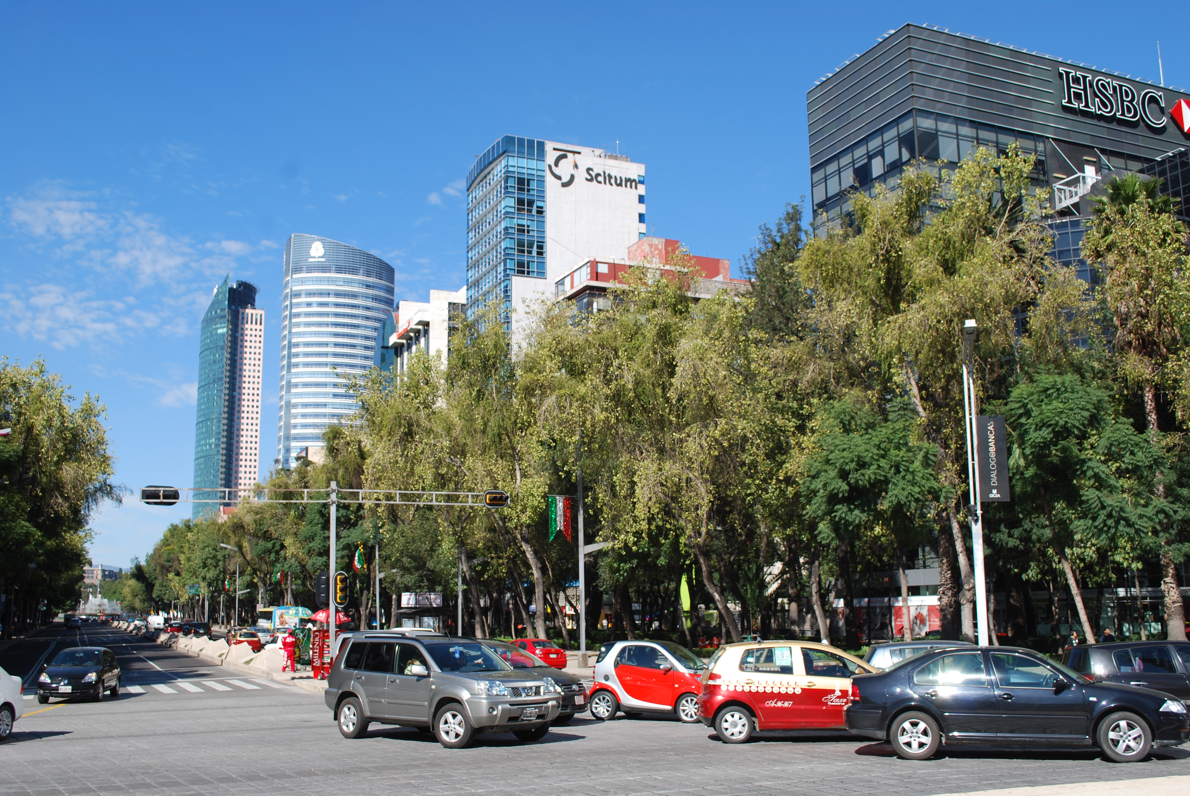 Skyscrapers on the Colonia Cuauhtemoc side of Paseo de la Refoma in Mexico City